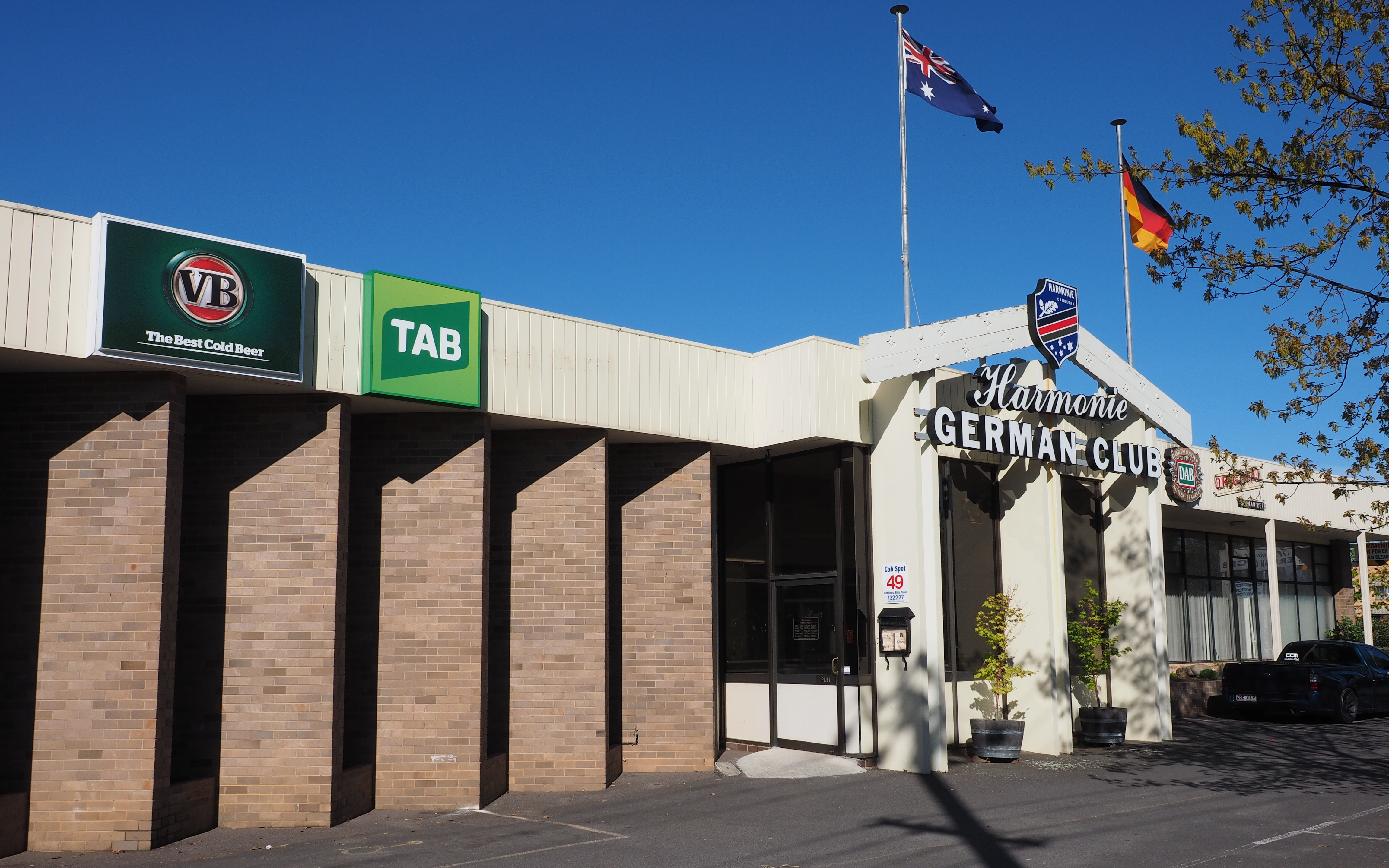 The Harmonie German Club in Narrabundah